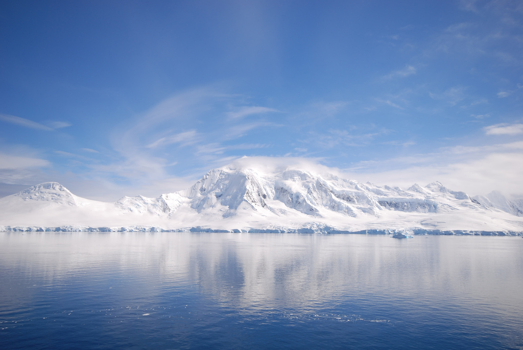 A balmy day in Antarctica, sitting on deck reading a book with this as the backdrop.